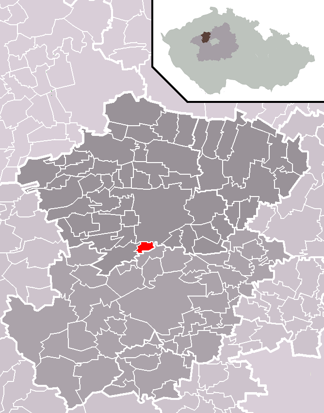 Location of Hrdlív municipality within Kladno District and administrative area of Slaný as a Municipality with Extended Competence.